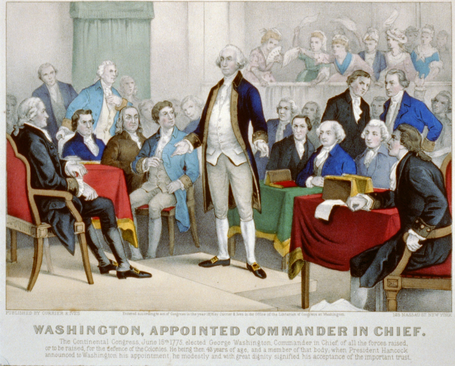 Color lithograph depicting George Washington after his appointment as commander in chief of the Continental Army.